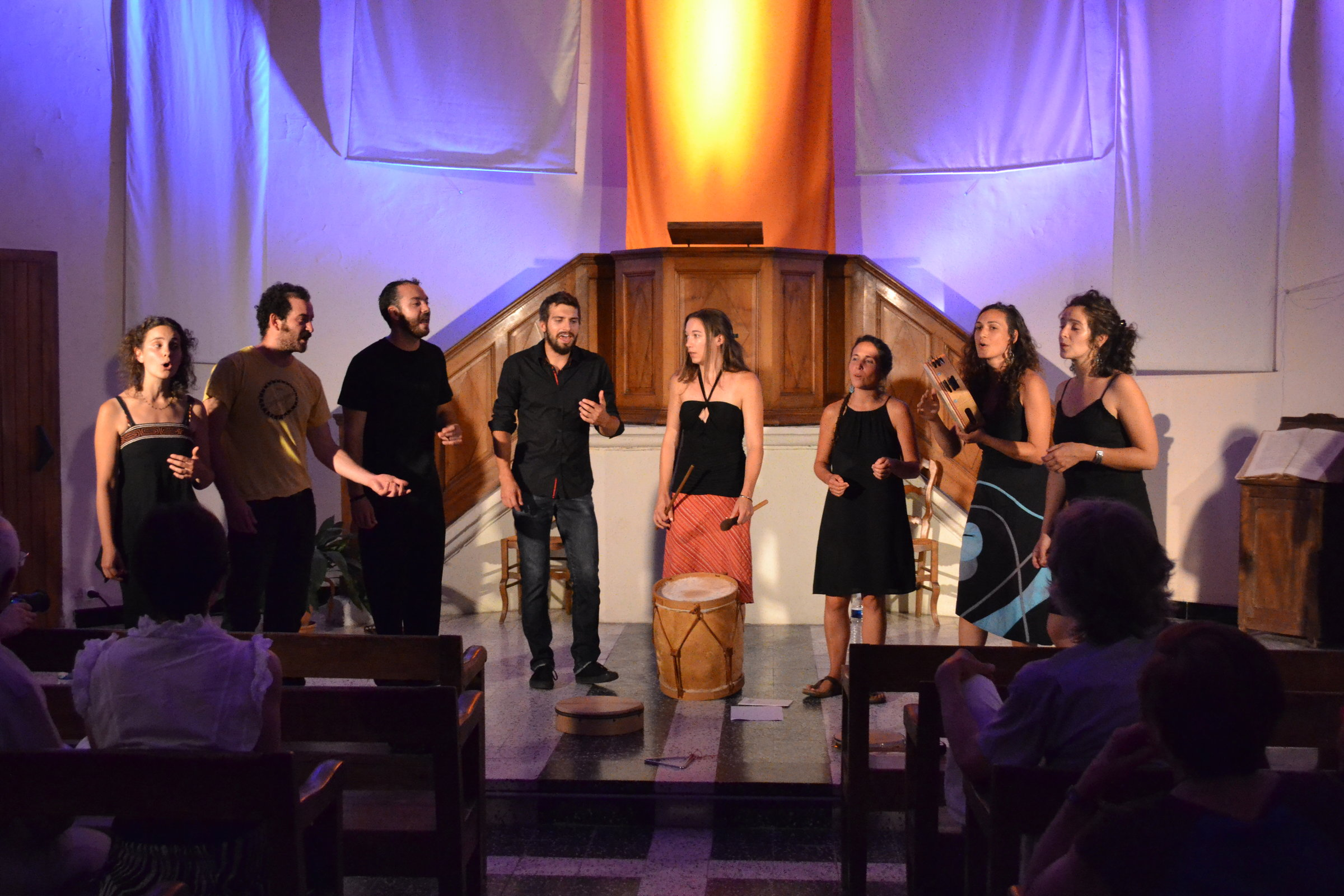 Los Barruts concert during Nimes Summer Occitan University 2015.